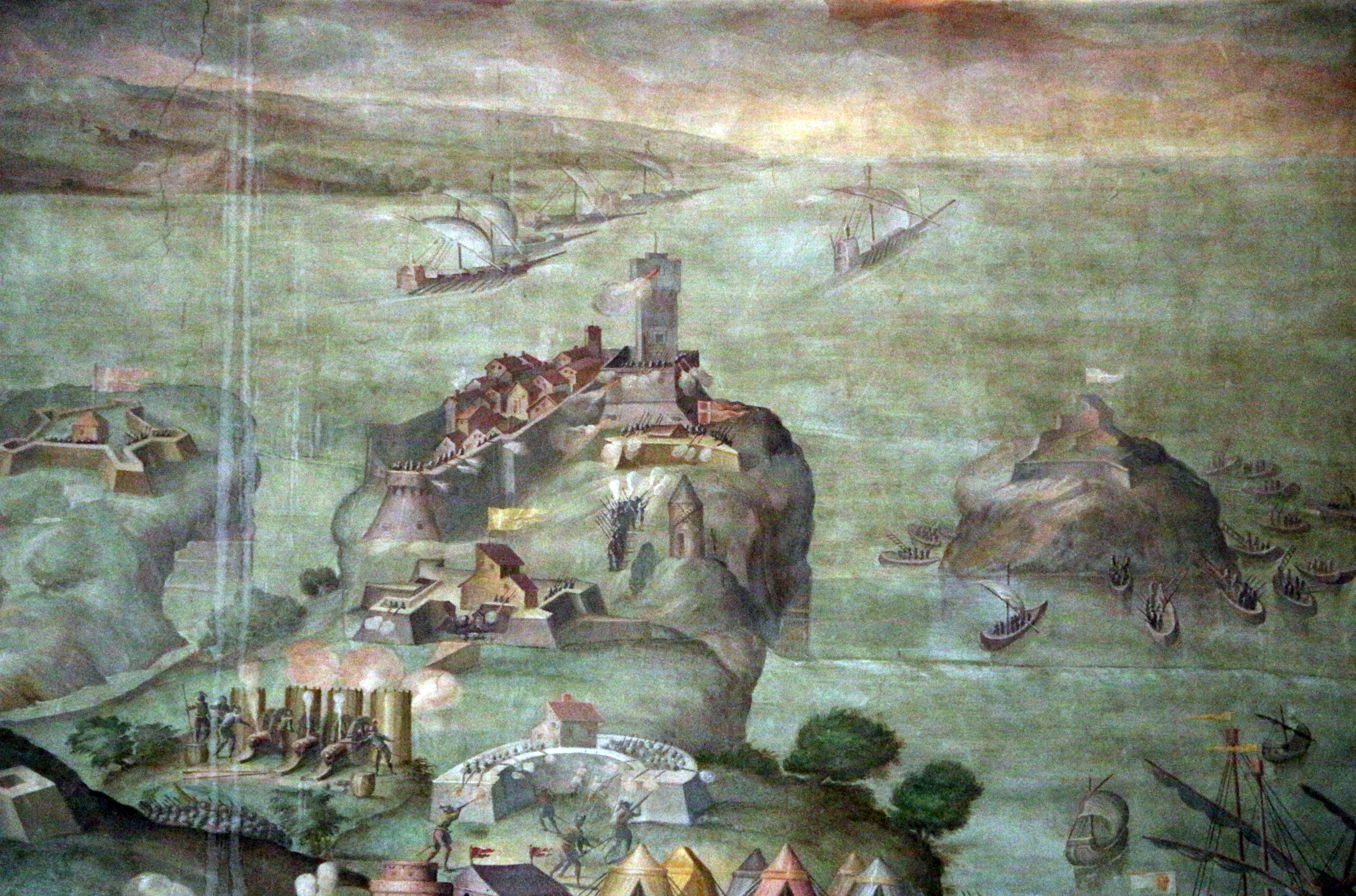 Salone dei Cinquecento - Vasari's paintings